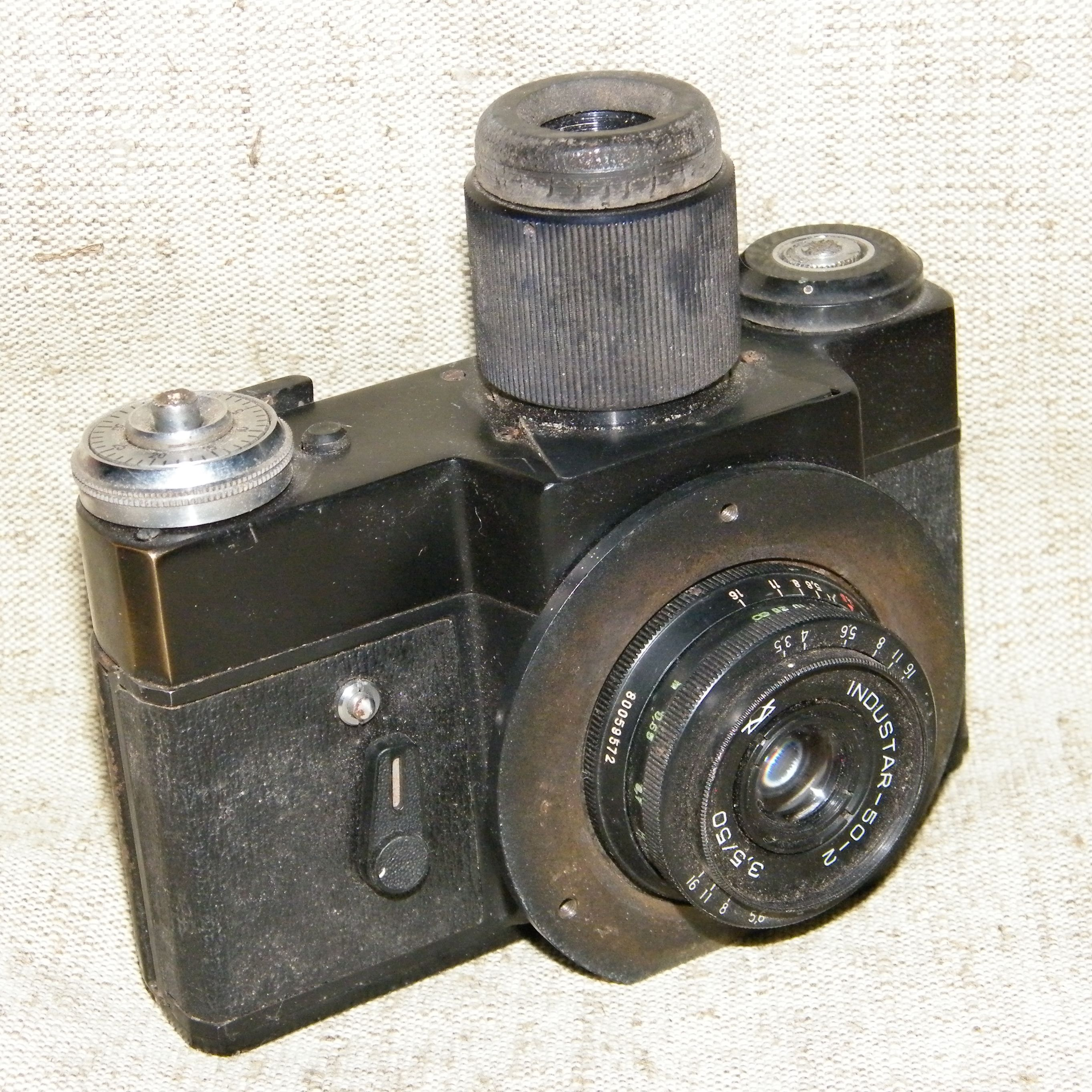 Zenit B